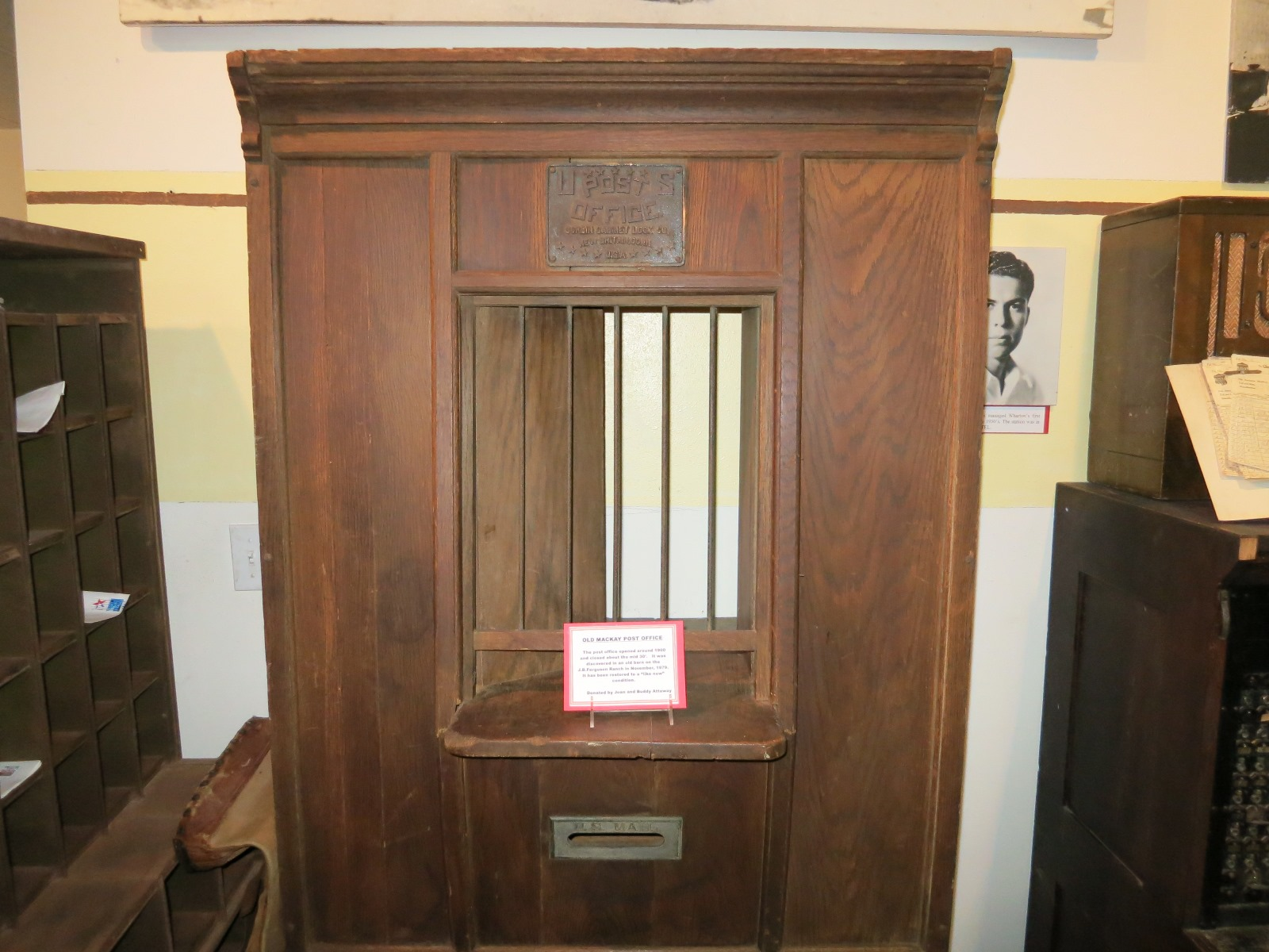 Photo shows the Mackay, Texas post office in the Wharton Historical Museum. A placard states that the item was recovered from an old barn on the J. N. Ferguson ranch in 1979.